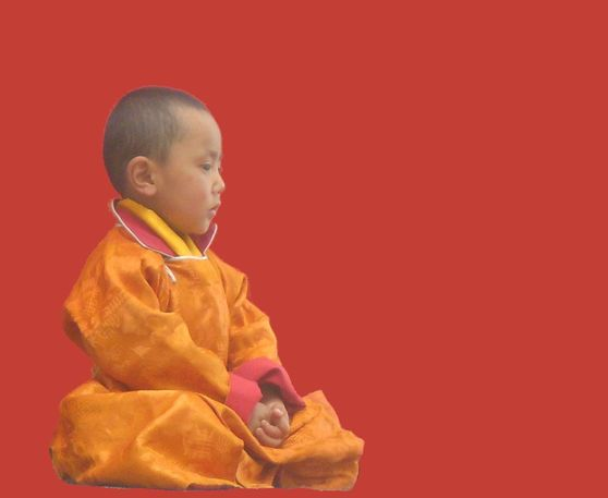 20. Kushok Bakula Rinpoche, Thubstan Nawang